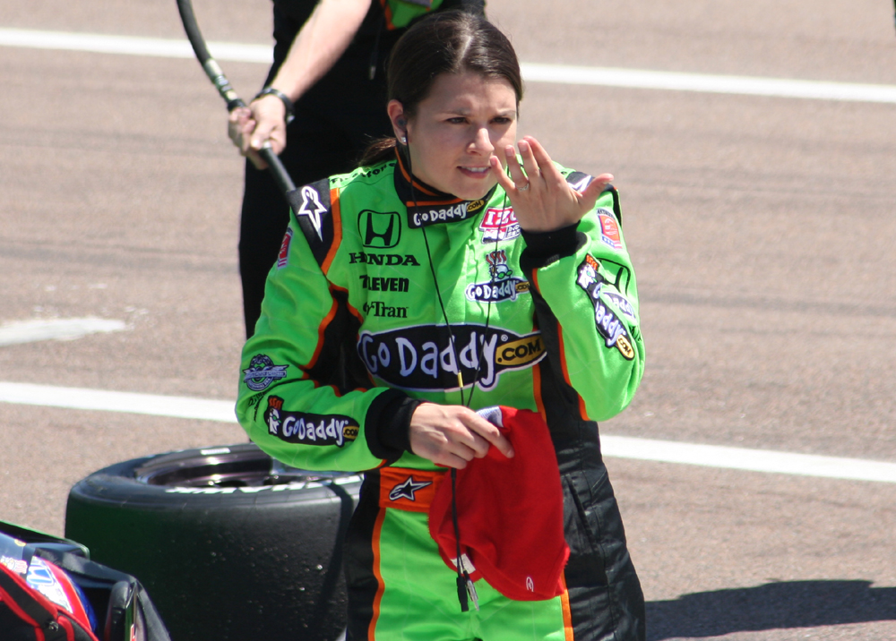 2010 St Pete Grand Prix (Friday).